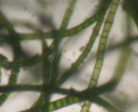 Chaetomorpha linum alga common in salt marshes.